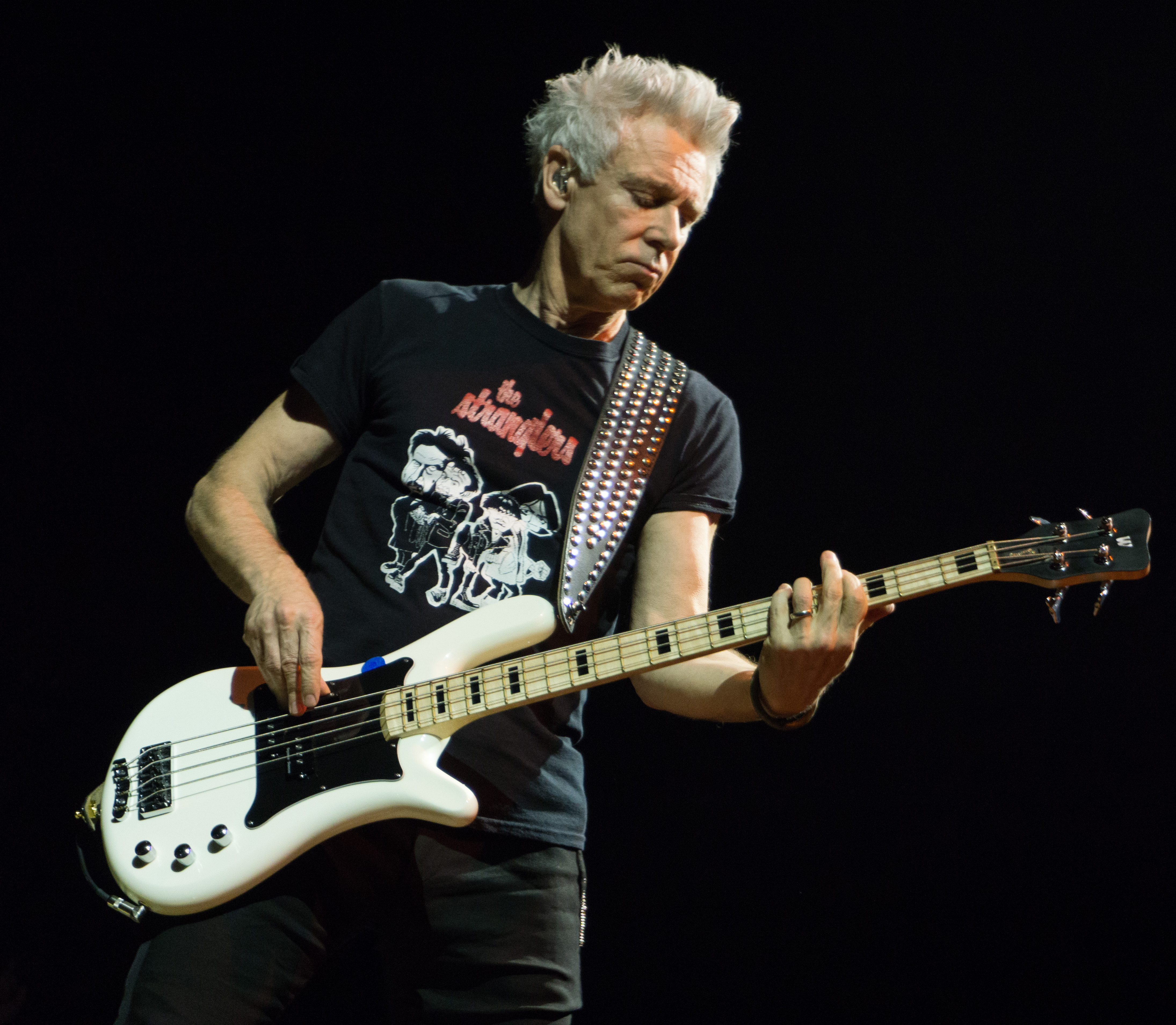 Adam Clayton with U2 on their Innocence + Experience Tour in Dublin, Ireland on November 28, 2015